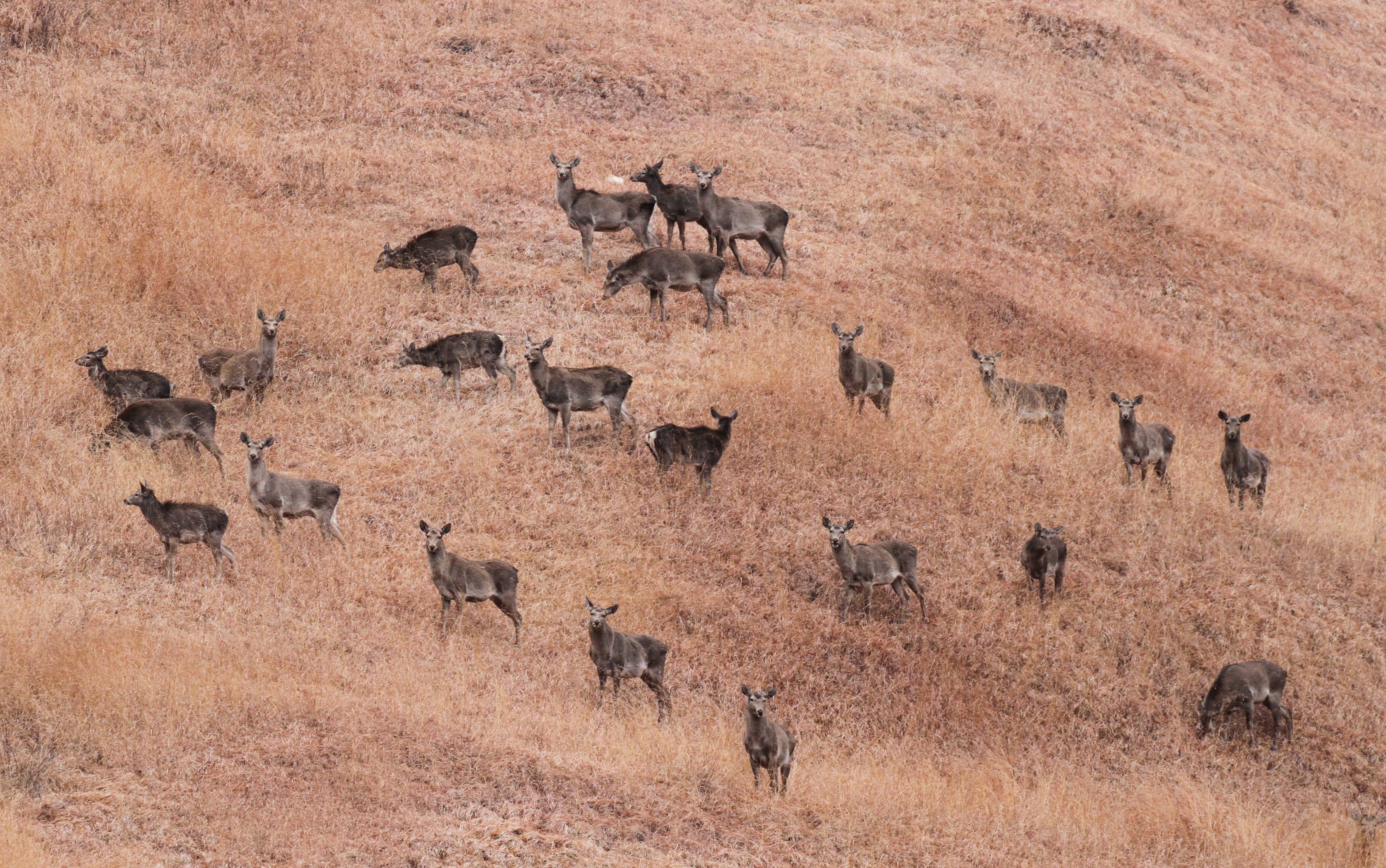 This image of a herd of Kashmir Red Deer has been taken at Dachigam National Park located in Western Himalaya in Kashmir. Also known as Hangul, Cervus elaphus hanglu, is a subspecies of European Red Deer and is endemic to Kashmir.Found nowhere else this subspecies is now almost confined to its last home Dachigam National Park near srinagar in Kashmir. The last surviving population of hangul is said to be around 200 individuals fighting the battle of survival in a small patch of forest in Wester Himalaya, in India.